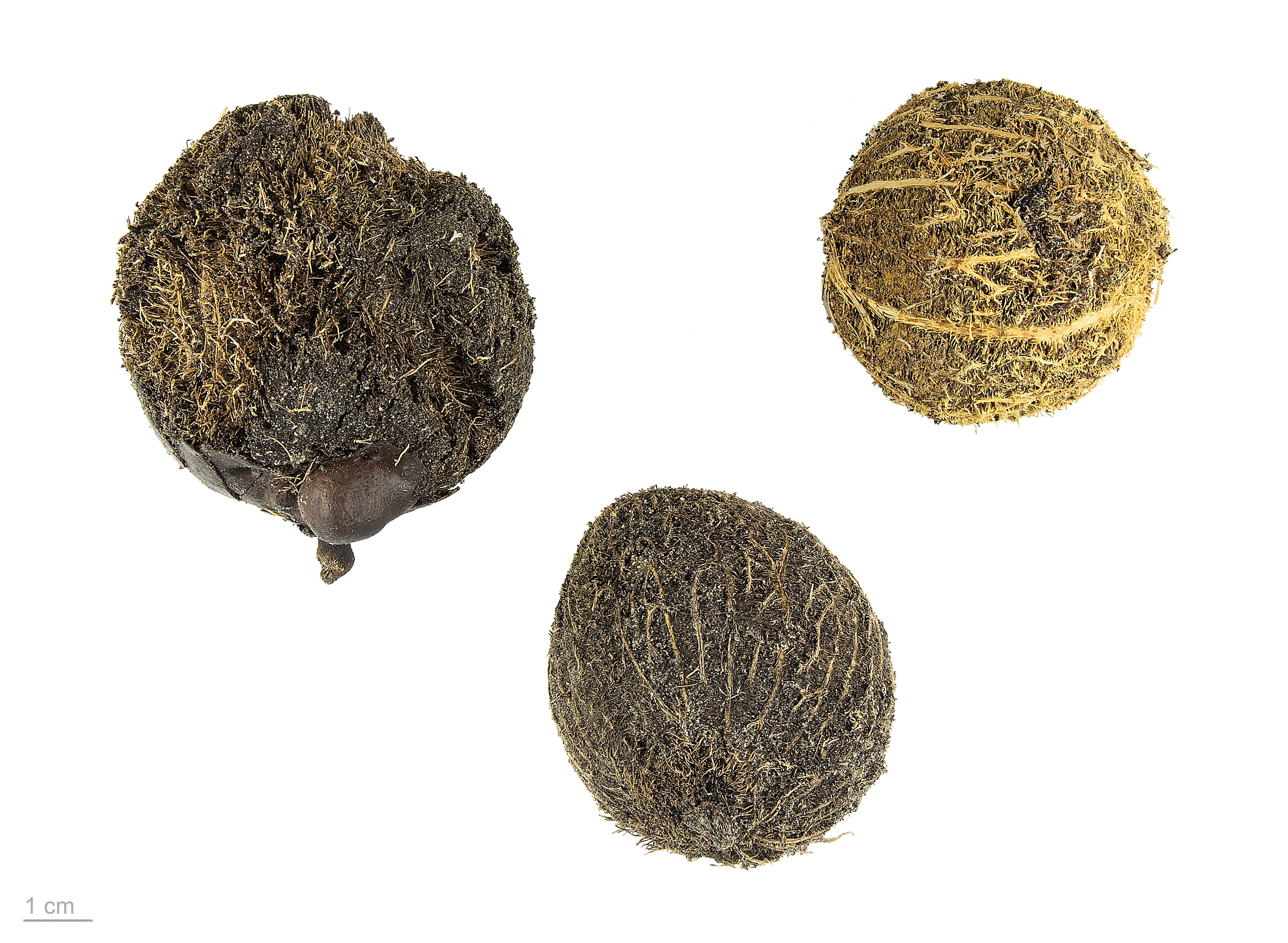 Hyphaene petersiana, Real fan palm, fruits